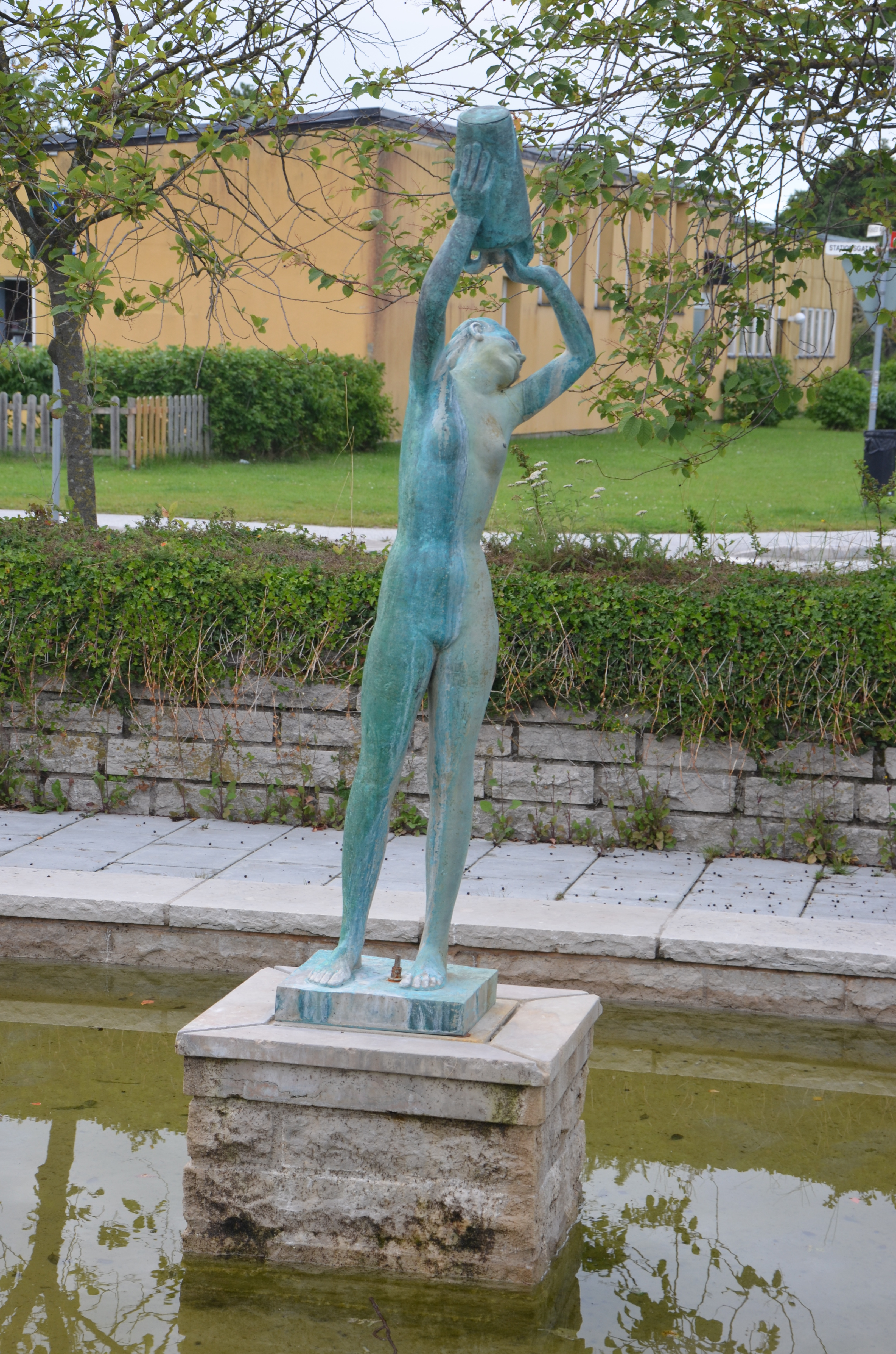 Bertil Nyströms Vattenlek, Slite